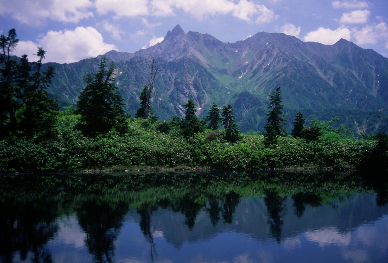 Mount Yari from Kagamidaira ,Kagami pond